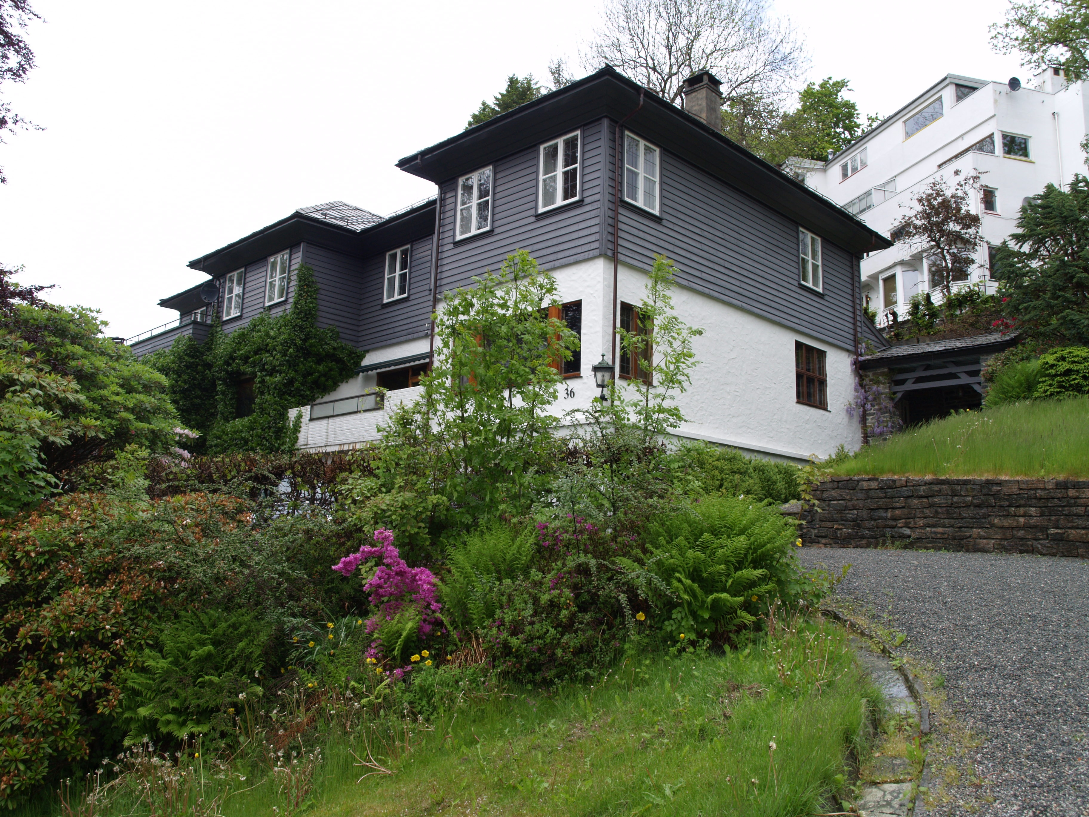 The home of Hilmar Reksten